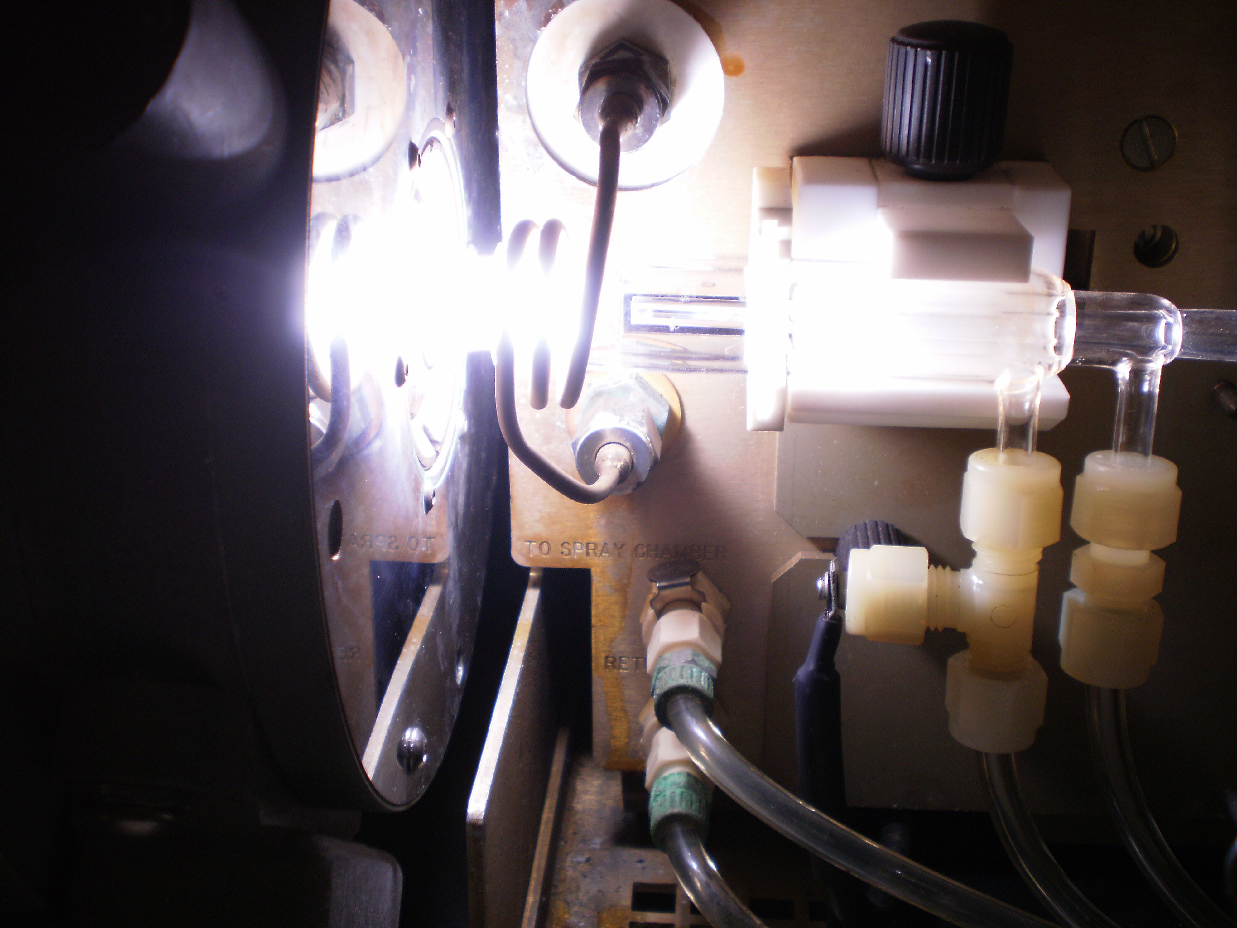 ICP-MS by Thermo